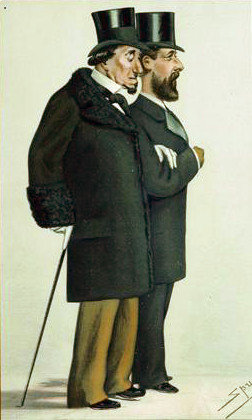 Caricature of The Earl of Beaconsfield and Mr Montagu Corry. Caption read "Power and Place".